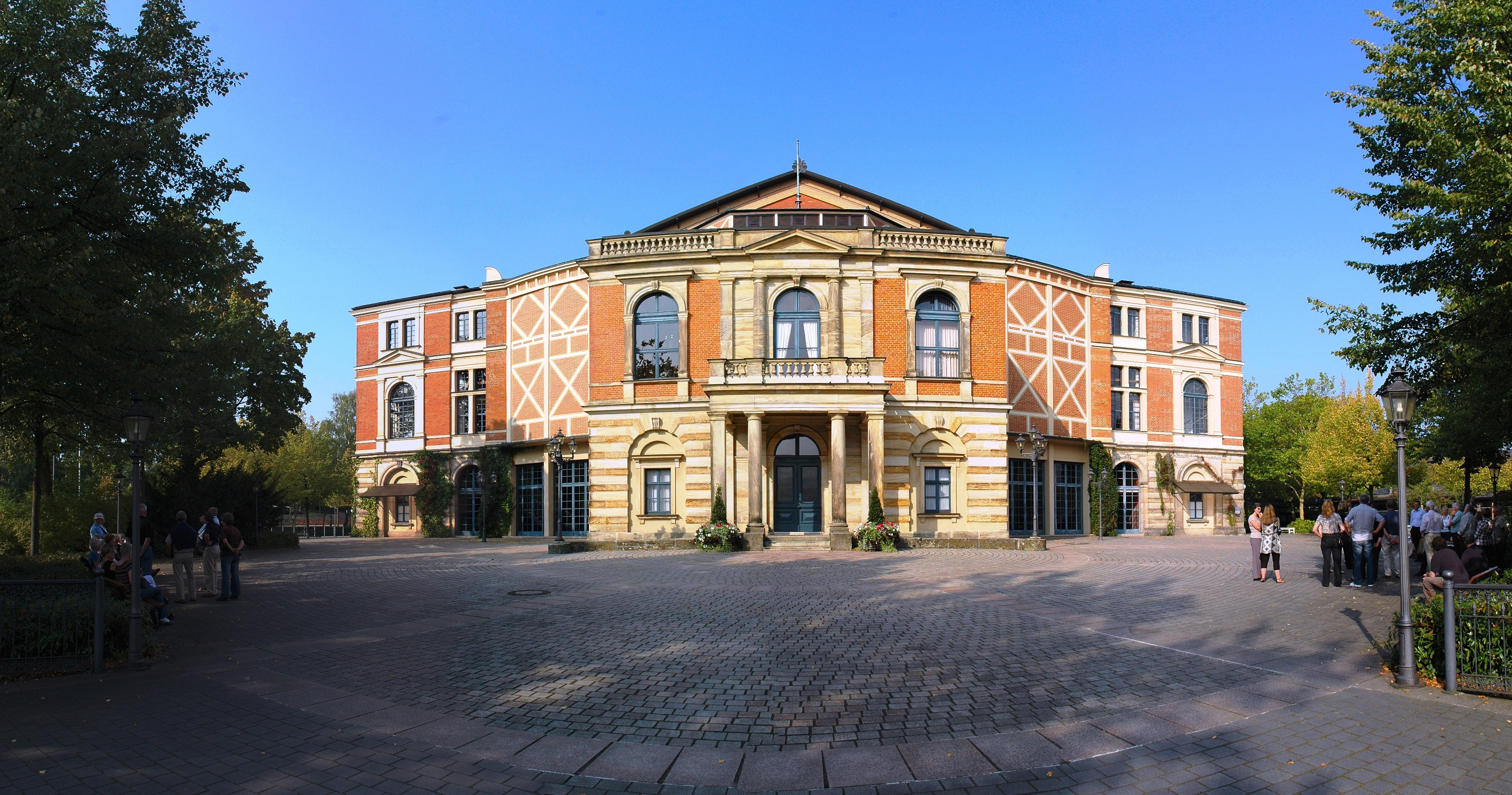 Concert Hall of Bayreuth